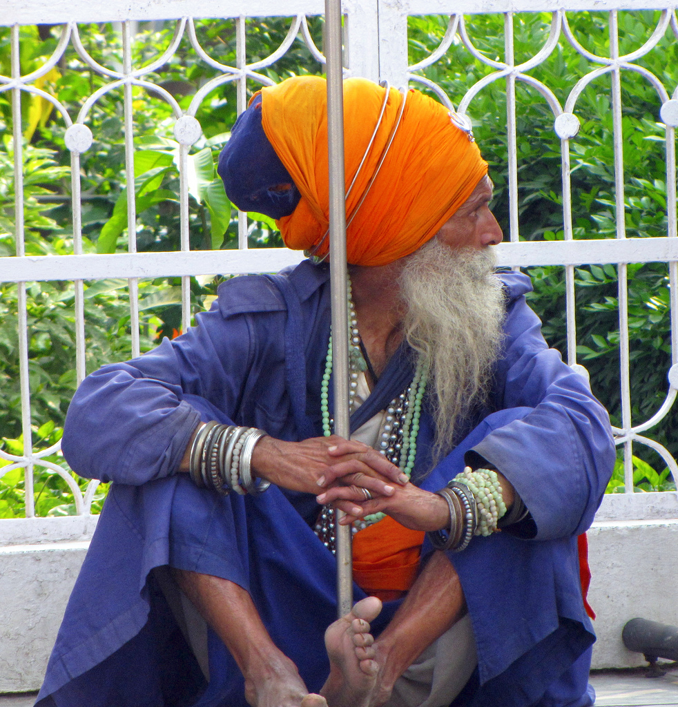 Nihung Singh at Anandpur, India.